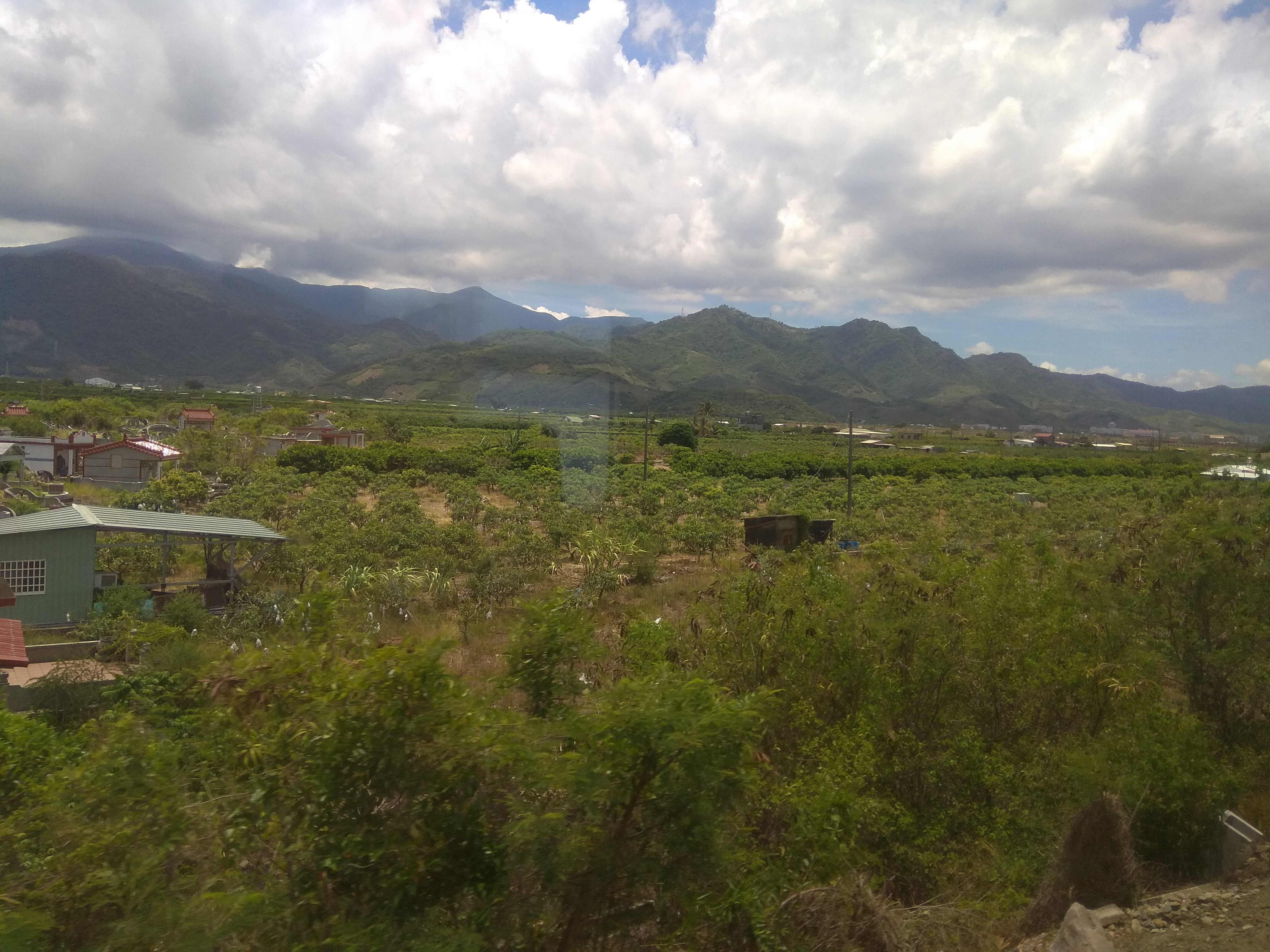 Pingtung plain (mountain side II)